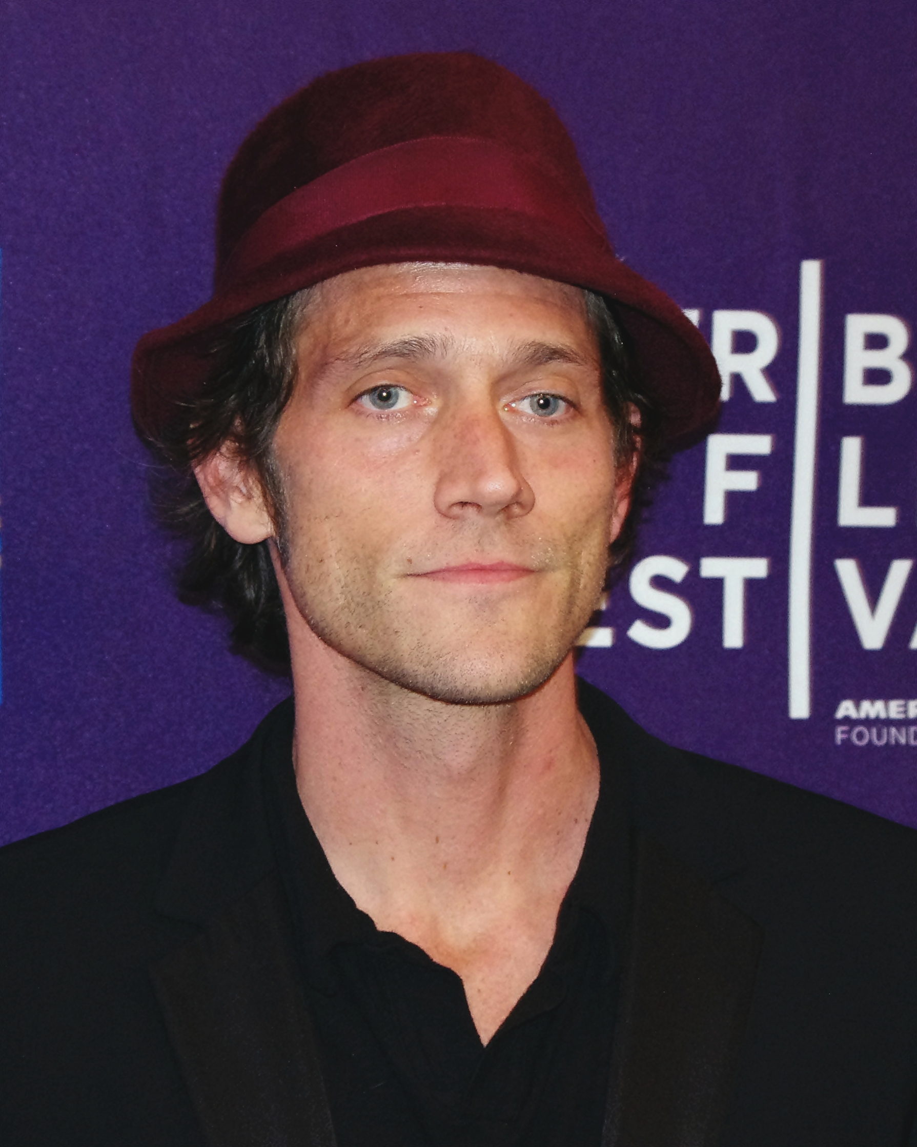 Ben Taylor at the 2012 Tribeca Film Festival